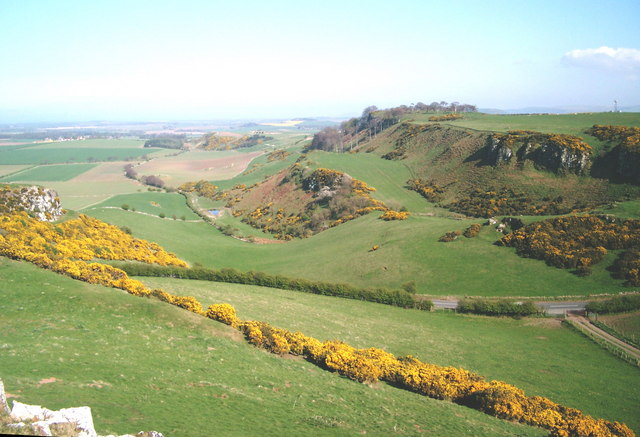 Garleton Hills Looking east towards East Linton across the terraced heughs.